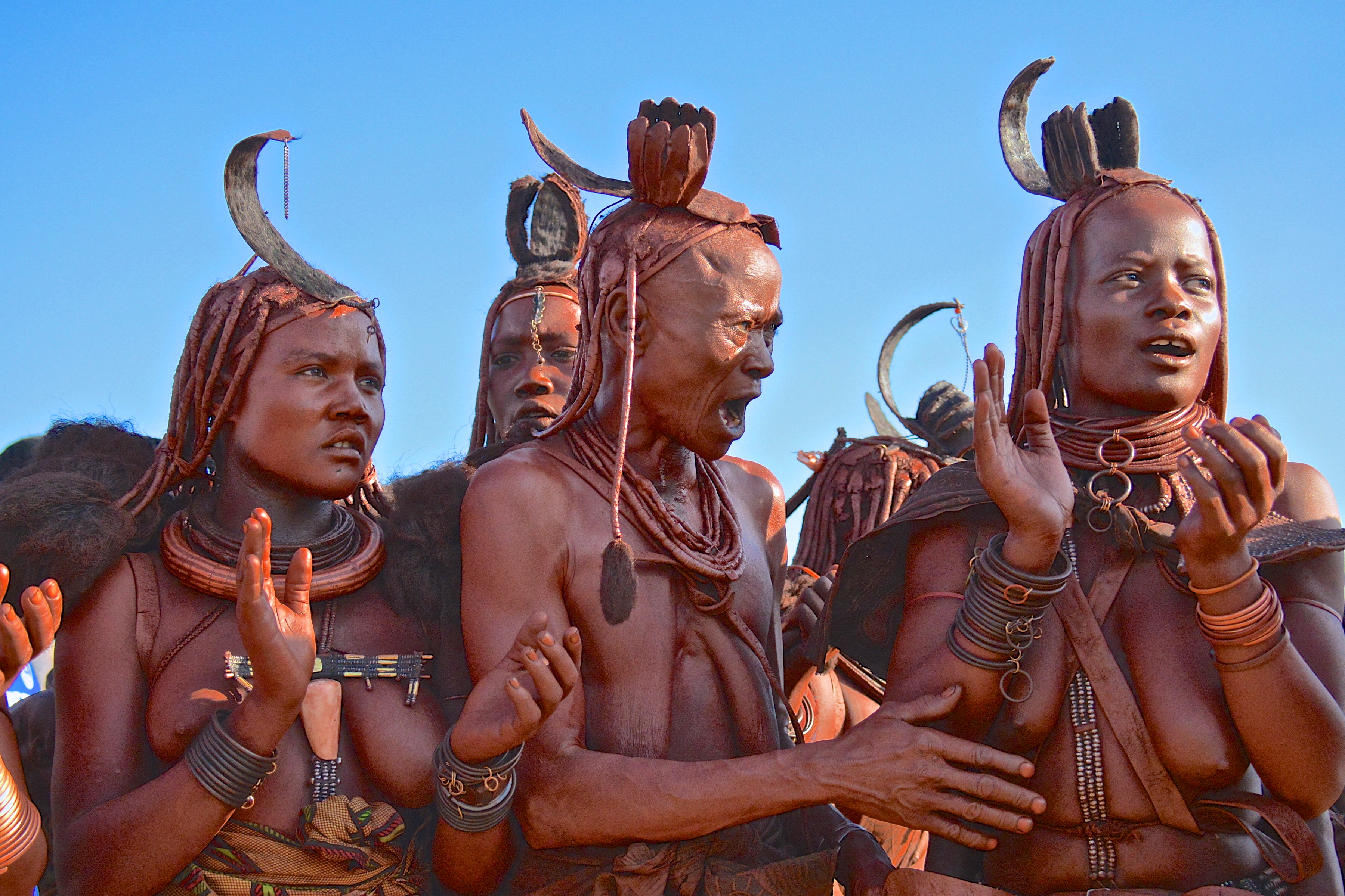 Himba's women in ceremony, Namibe, Angola This is an image of "African people at work" from Angola